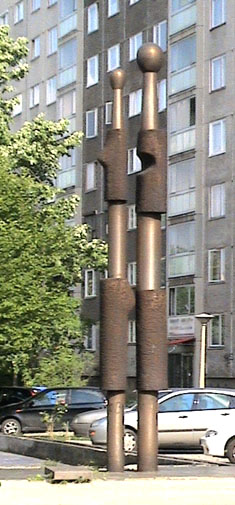 Statue – Miklós Varga: Couple. Miskolc, Hungary